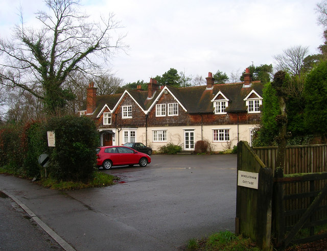 Windlesham Manor Home to Sir Arthur Conan Doyle between 1907 and his death in 1930. Initially he was buried in the back garden along with his wife who died in 1940 though both were moved to Minstead in the New Forest after World War Two when the family sold the building to new owners. Today it is a nursing home. Conan Doyle largely redesigned the house himself and its angle in relation to the road came about due to his desire to be able to see his favourite view, facing Rotherfield, every day.